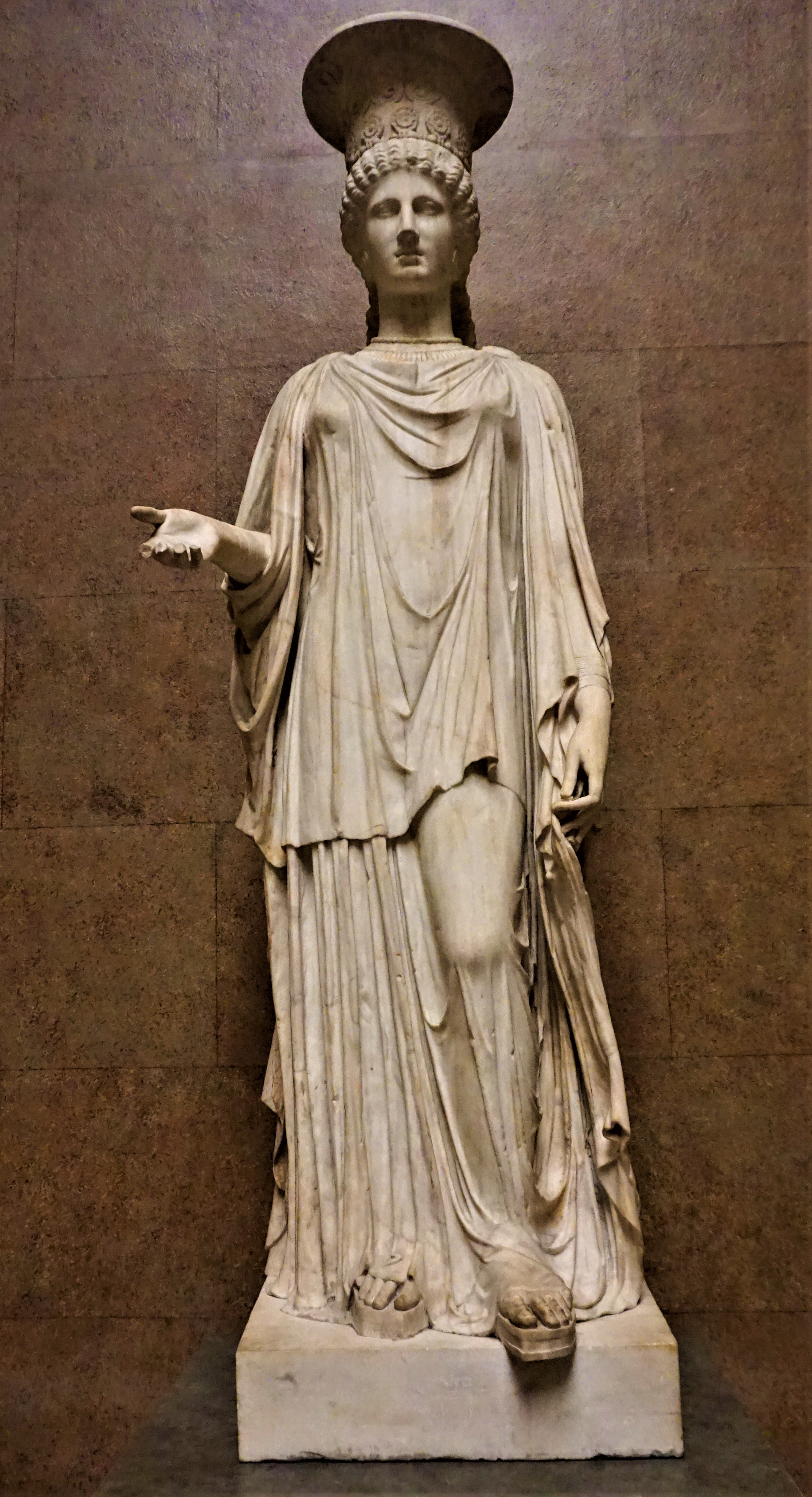 Townley Caryatid - British Museum - Joy of Museums